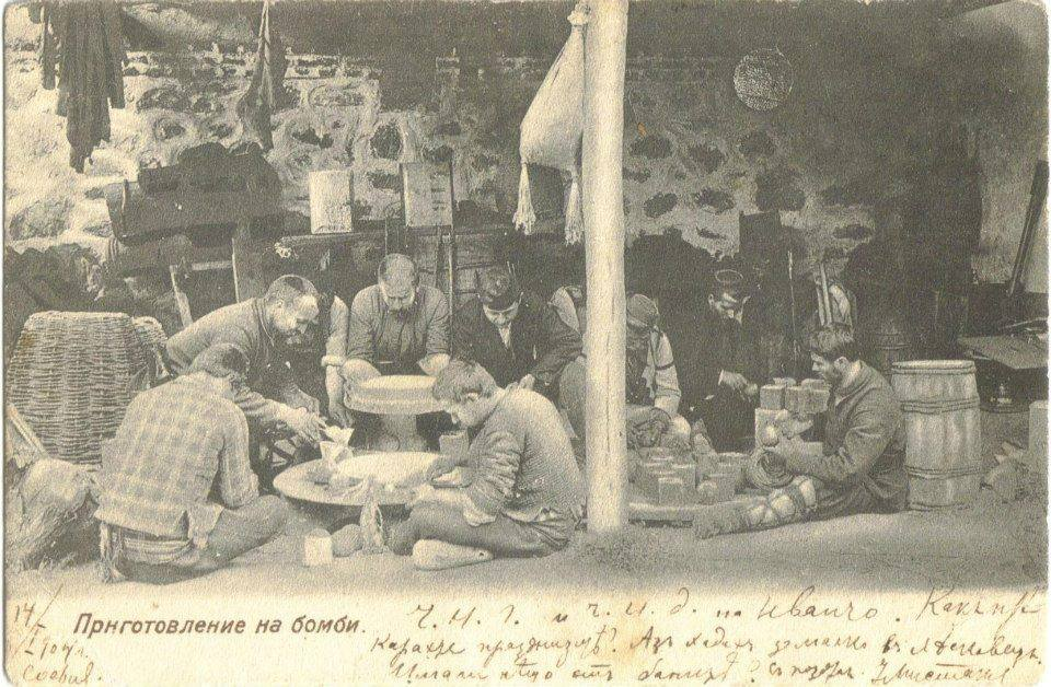 IMARO Bomb Makers Before 1904